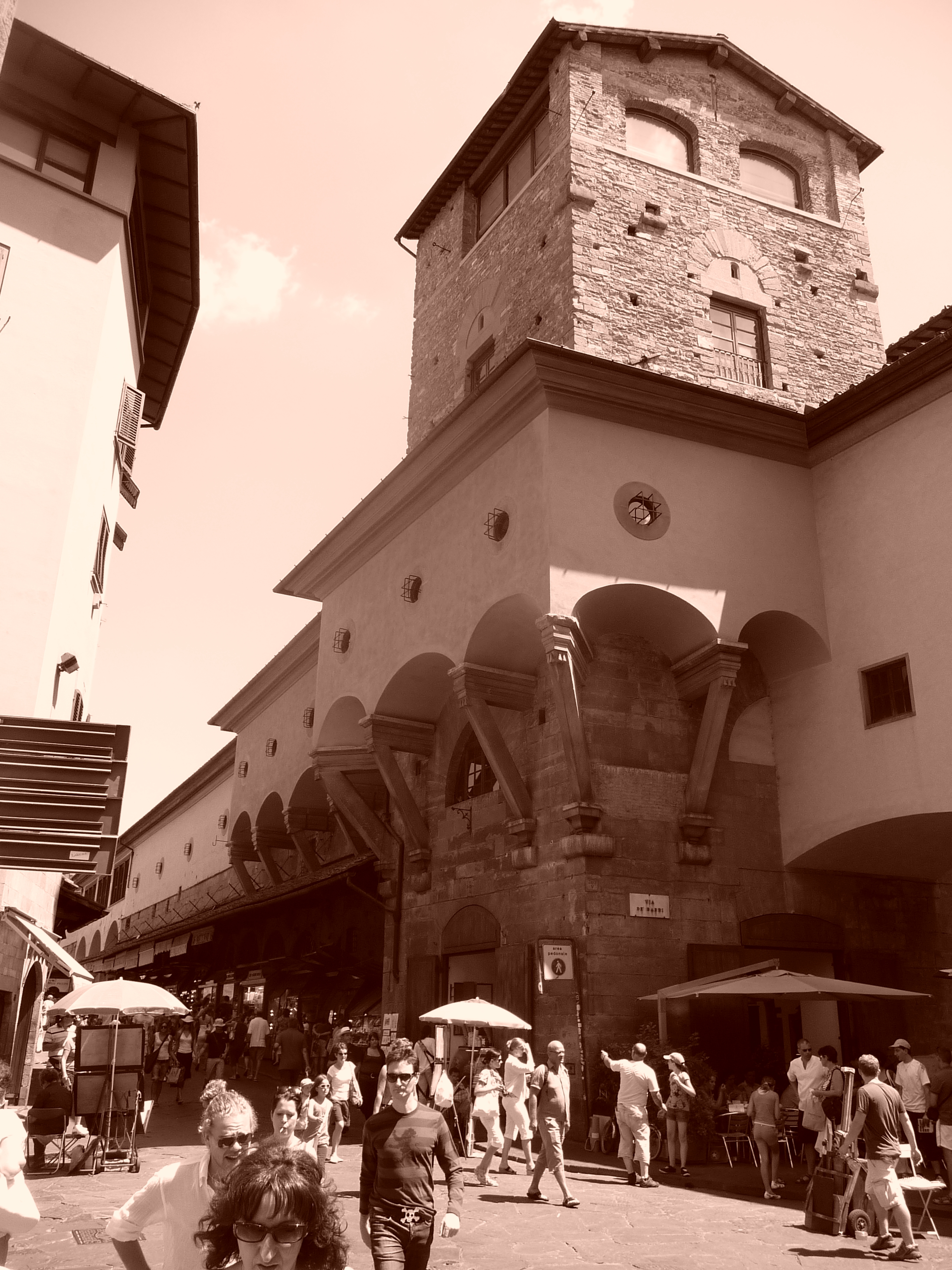 View from the west entrance of the Ponte Vecchio